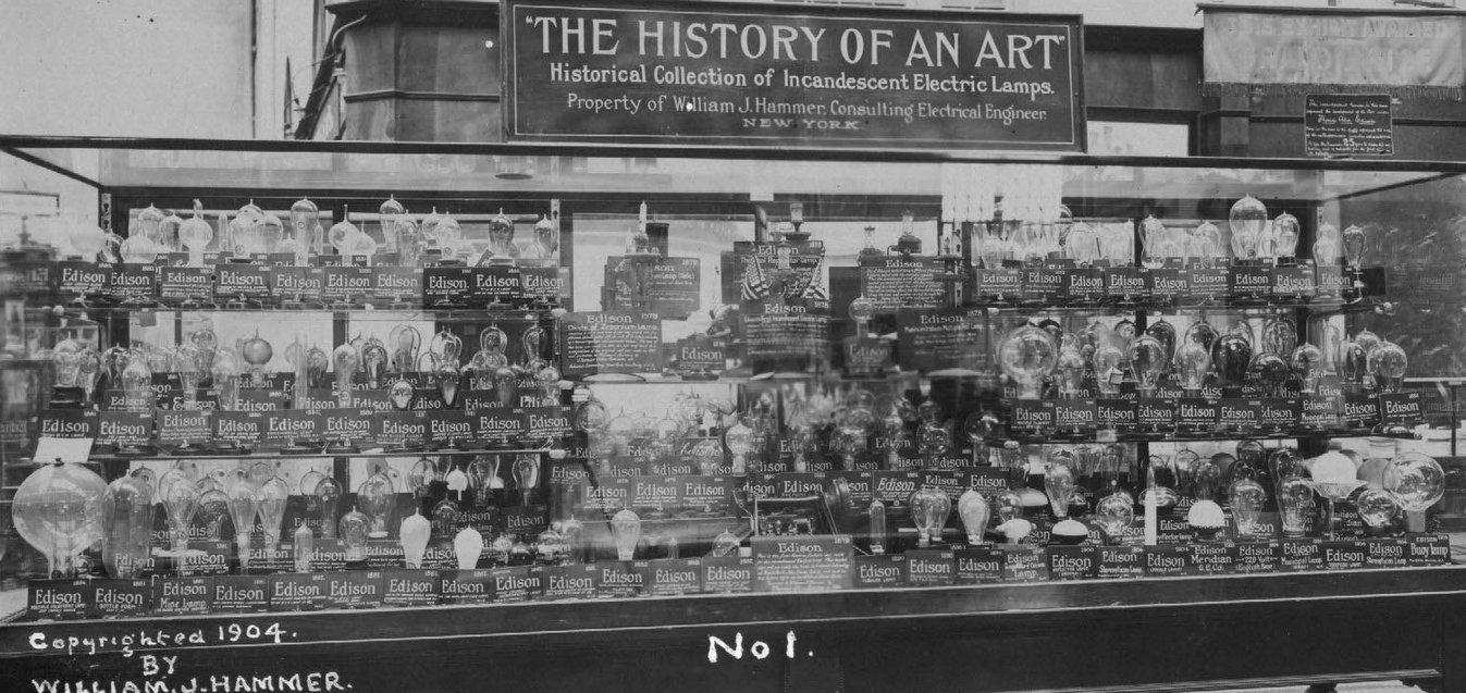 Hammer Historical Collection of Incandescent Lamps titled "The History of an Art", case no. 1